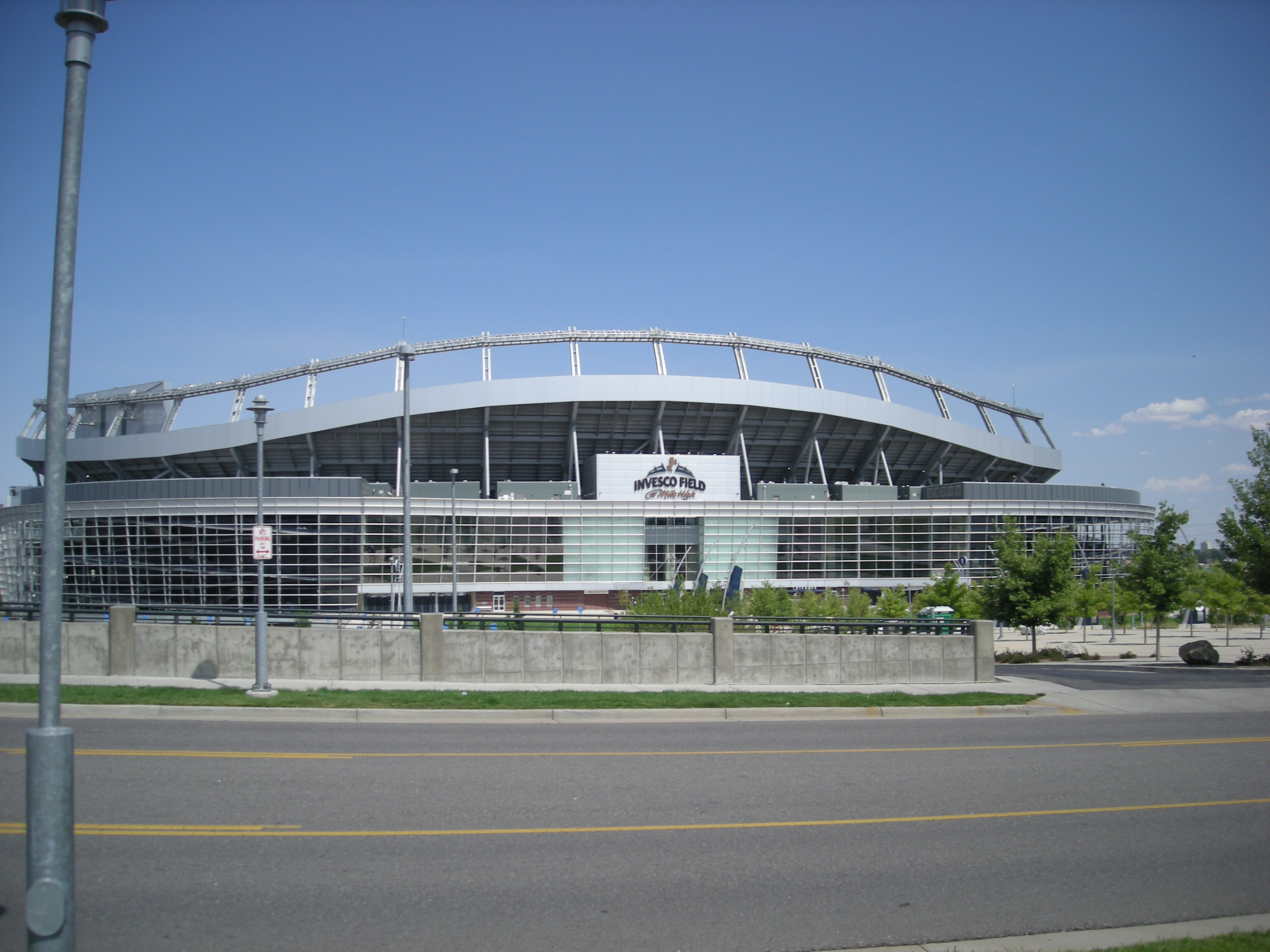 The exterior of Invesco Field at Mile High in Denver, Colorado (United States).